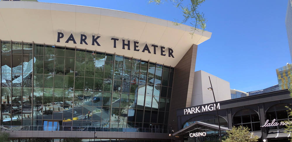 Exterior of the Park Theater in Las Vegas, Nevada. The entrance into the casino of Park MGM, from Park Ave is shown. Along with parts of La La Noodle.